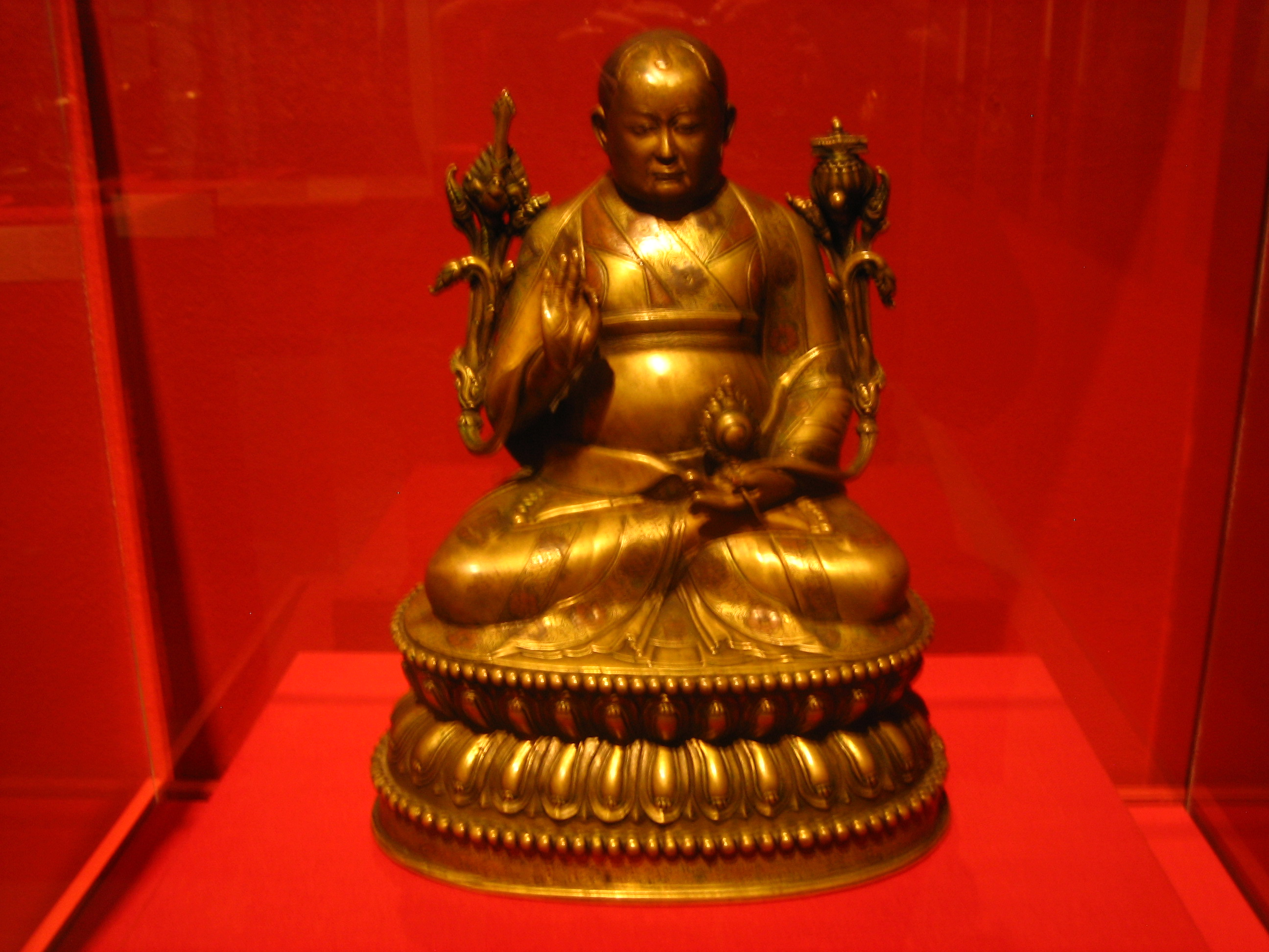 Portrait of Sonam Lhundrup; copper alloy with silver and copper inlay, pigment, and cold gold. Tibetan cultural region of Mustang